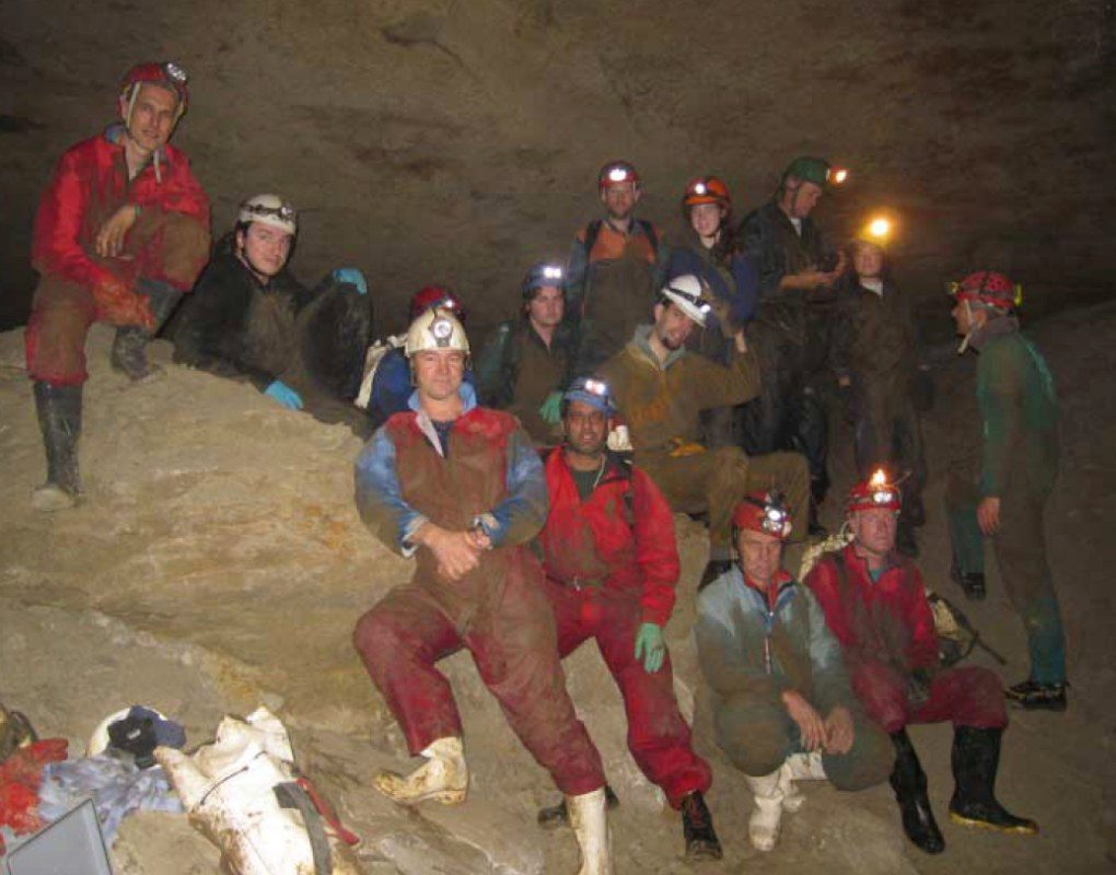 Members and guests of the Auckland Speleo Group, New Zealand, posing for a group photo somewhere in a Waitomo-area cave, sometime in roughly 2007.